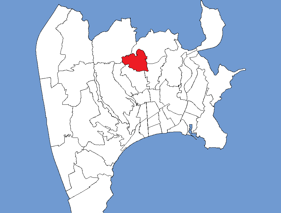 Location of the neighbourhood Le Ray in Nice